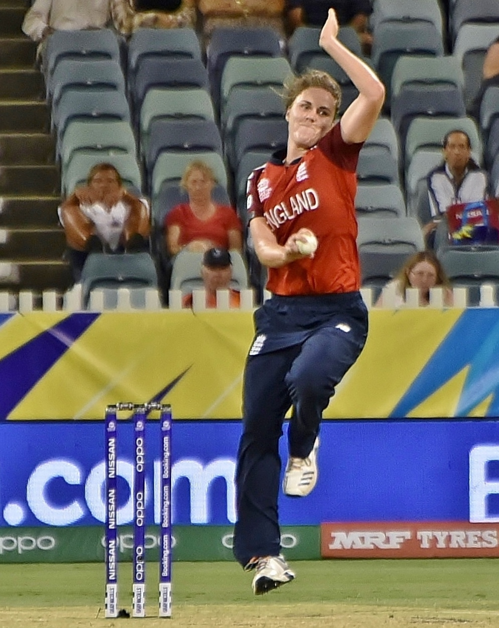 Natalie Sciver bowling for England against South Africa during their 2020 ICC Women's T20 World Cup match at the WACA Ground in Perth, Australia